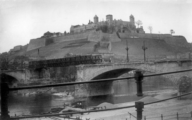 119th Armored Engr Battalion - Wurzburg Fortress Bailey bridge